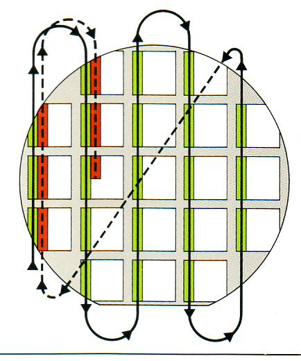 "Write on the fly" is a stragegy of writing for e-beam lithography system purposed to write directly onto wafers.